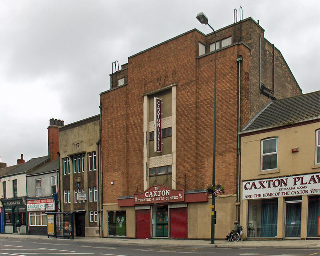 The Caxton Theatre & Arts Centre, Grimsby This Theatre, situated at 128 Cleethorpe Road is the home of the Caxton Players and has a 128 seat auditorium.